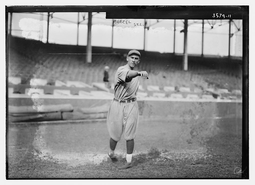 Bain News Service,, publisher. [Bruno Betzel, St. Louis NL (baseball)] [1915] 1 negative : glass ; 5 x 7 in. or smaller. Notes: Original data provided by the Bain News Service on the negatives or caption cards: Bruno Betzel, St. L Cards. Corrected title and date based on research by the Pictorial History Committee, Society for American Baseball Research, 2006. Forms part of: George Grantham Bain Collection (Library of Congress). Format: Glass negatives. Repository: Library of Congress, Prints and Photographs Division, Washington, D.C. 20540 USA, General information about the Bain Collection is available at Higher resolution image is available (Persistent URL): Call Number: LC-B2- 3579-11